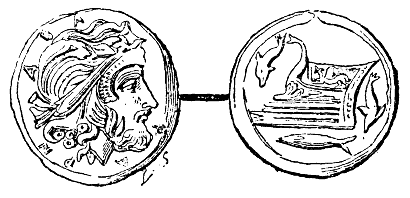 Silver coin made for Farnabazos (Persian satrap)